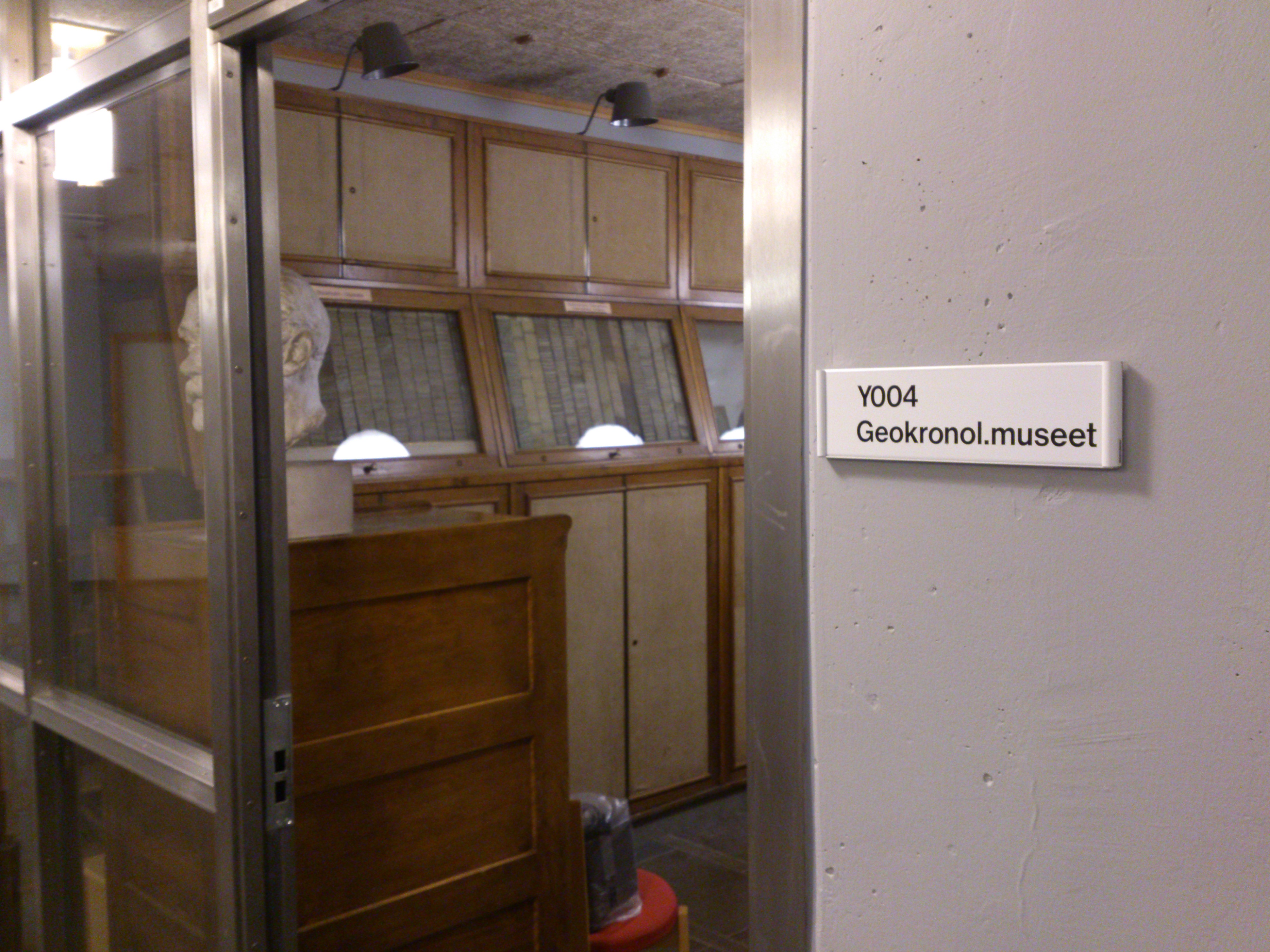 The Geocronological museum, House of Earth sciences, Stockholm University, Sweden.